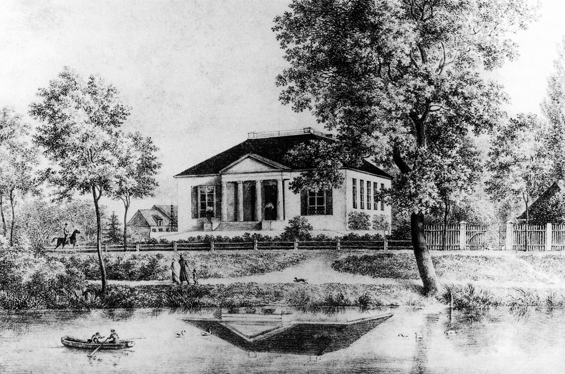 Mansion of the merchant Theodor Gerhard Lürman at the Contrescarpe in Bremen, Germany. Built 1822 by Jacob Ephraim Polzin. Several times altered and enlarged, the building today houses the senator of the interior and sport of the state of Bremen.